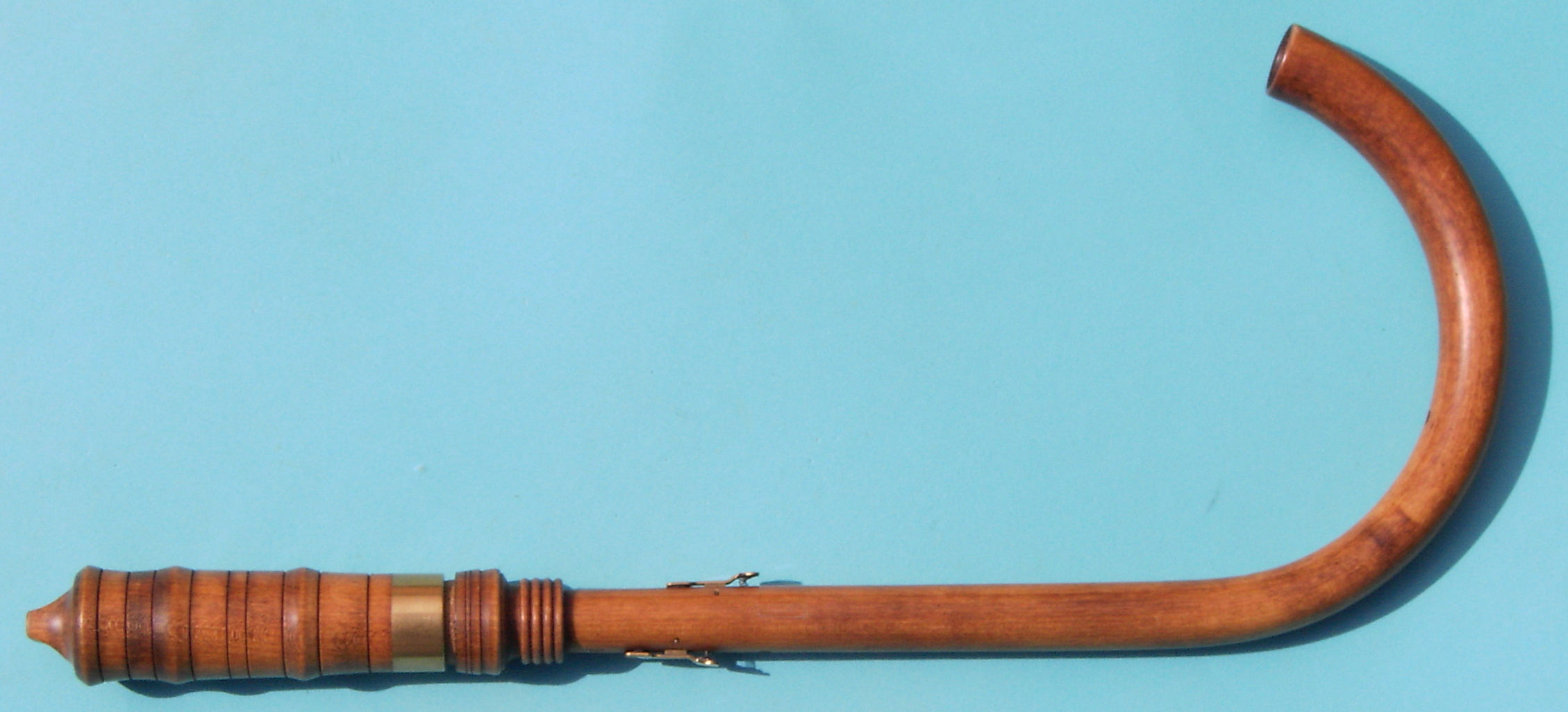 alto crumhorn in f, modern version with two keys, scale range f0g0–g1 without keys, extended up to bb1 with keys